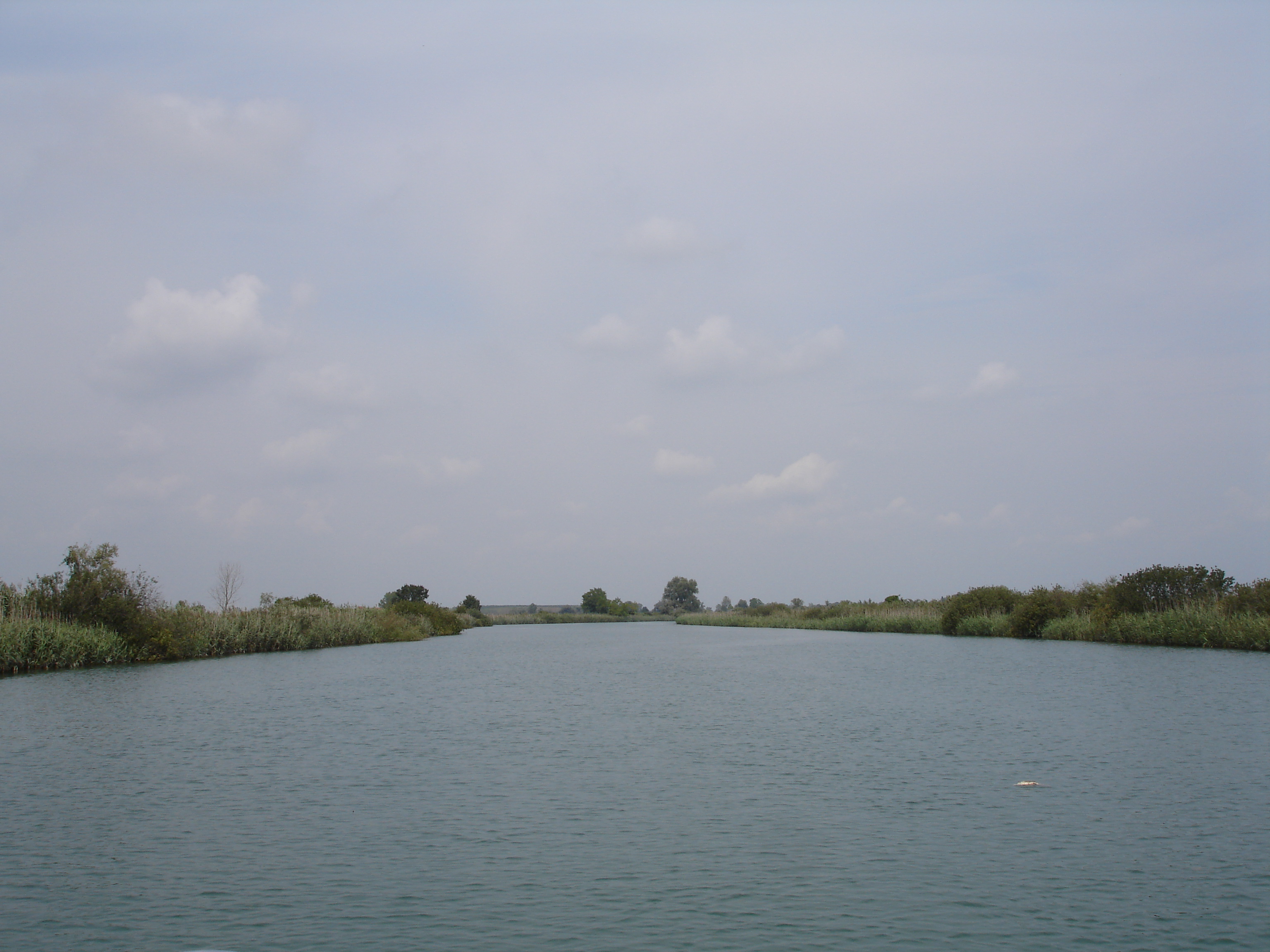 picture of river Stella, in Friuli-Venezia Giulia region in North eastern Italy, between the town of Precenicco and the estuary.